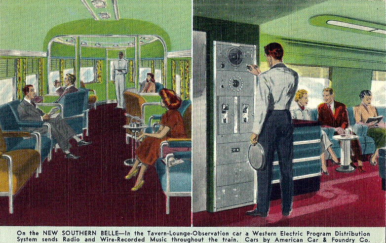 Postcard depiction of the tavern lounge-observation car of the Kansas City Southern Railroad's "Southern Belle".